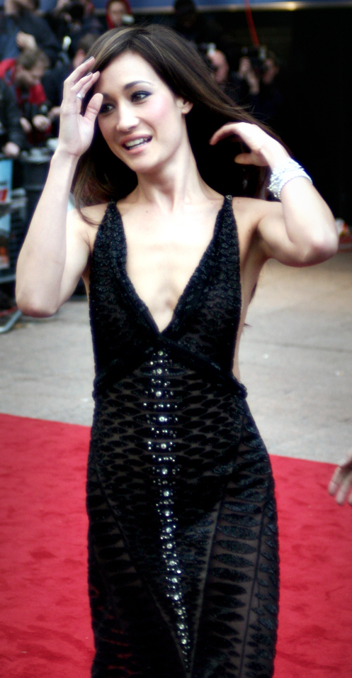 Maggie Q at the Mission: Impossible III British premiere.